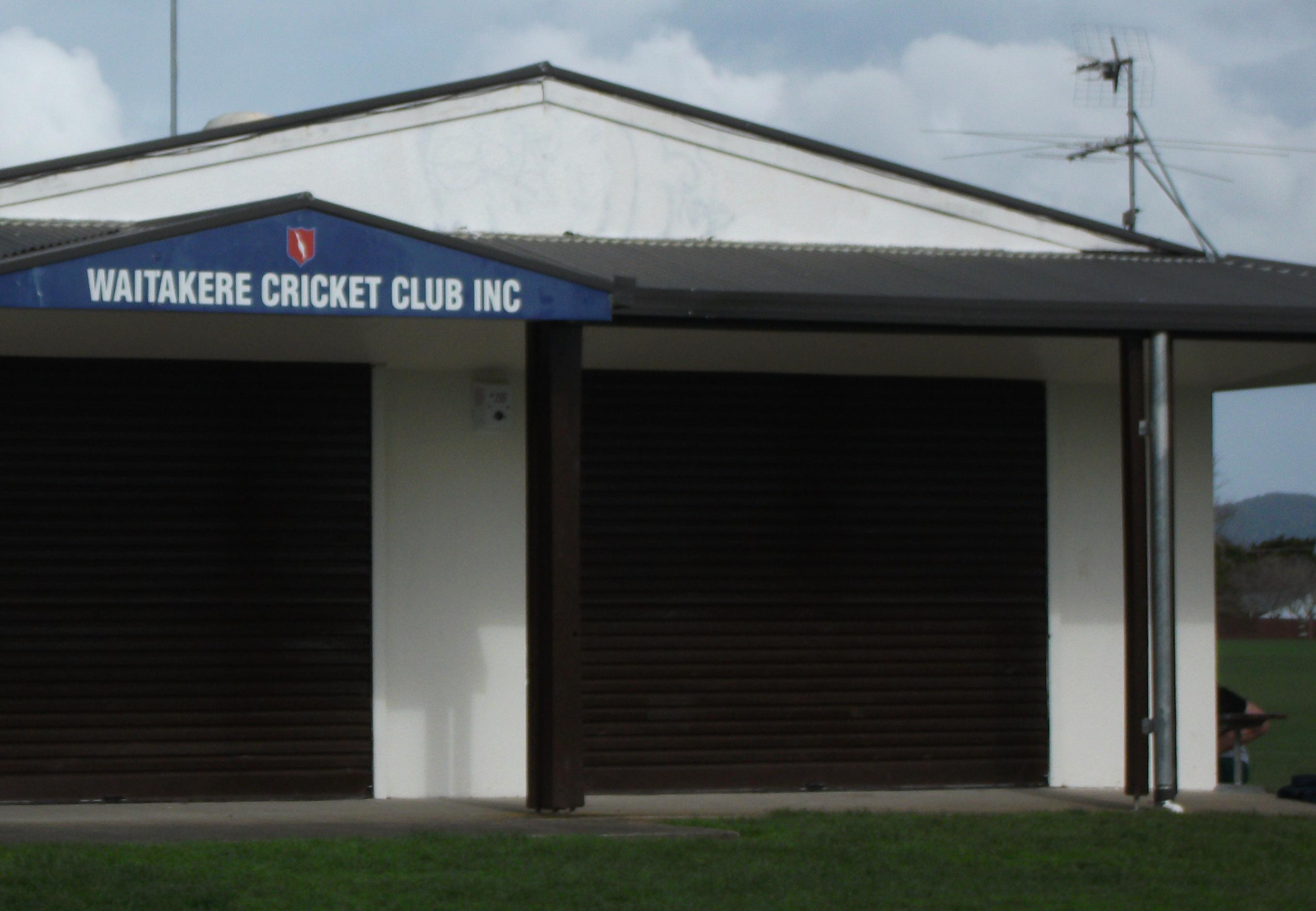 Waitakere Cricket Club headquarters at Te Atatu Park